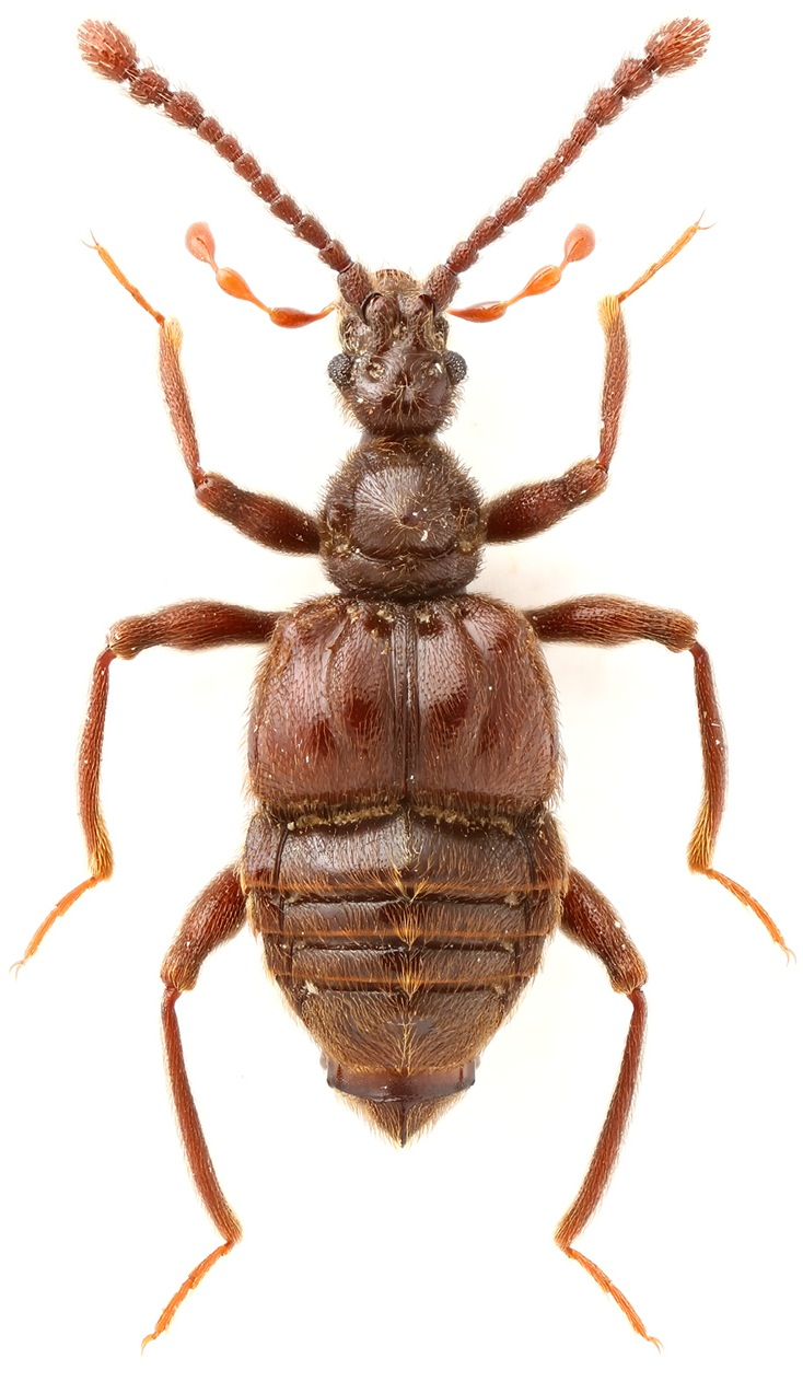 Habitus of Megatyrus tengchongensis, female.